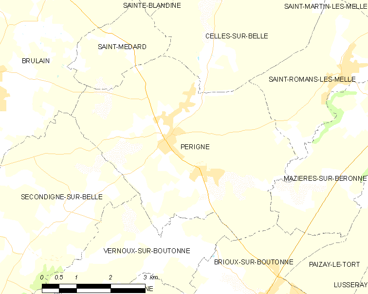 Map of French municipality Périgné